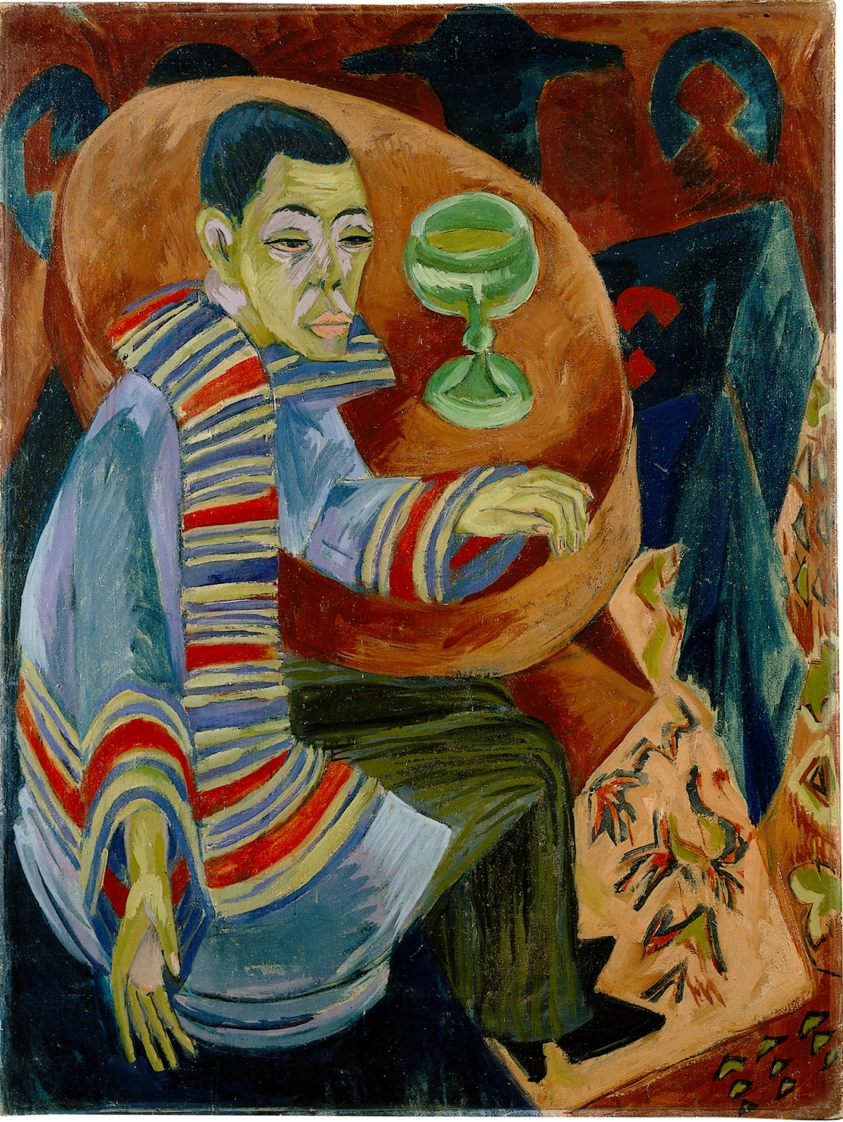 The drinker - selfportrait